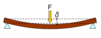 Beam bending stiffness